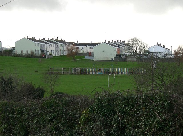 Housing Estate, North Country. Late 20th Century terraced housing.